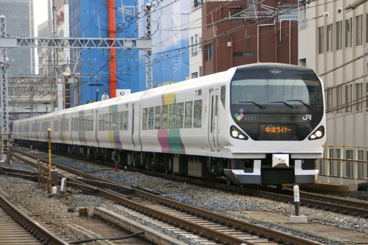 A JR East E257 series EMU on a down Chuo Liner 1 service near Kanda in Tokyo